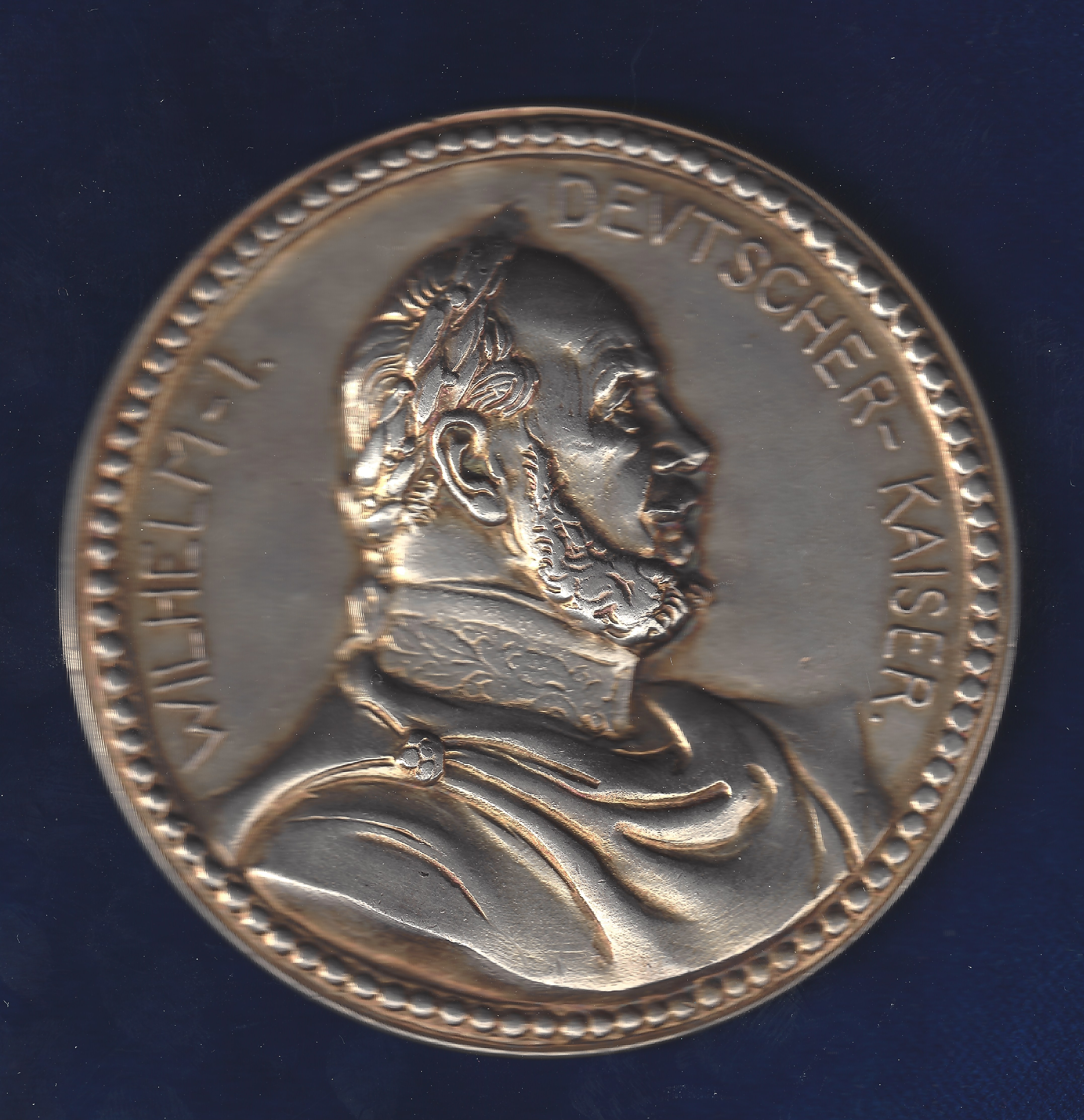 Medallion d. = 81 mm. 184.78 g Ag 0.990 lightly gilt Fine Silver. This large medal was given by the city of Nürnberg to the Royalties attending the ceremony of the unveiling of the monument in honour of Kaiser Wilhelm I on 14 December 1905 in Nuremberg. It is very rare in this size. Wilhelm I, German Emperor, 1871 - 1888 Laureate bust r., around: "WILHELM- I. DEVTSCHER- KAISER."/ The monument: Wilhelm I on horseback r., 2 lines at l.: "1905 NÜRNBERG". At l. above the arms of Nuremberg. LL Ball 28 (1935), No 32579; Erlanger 664. Medallist: W. v. R. (Wilhelm von Ruemann), 1850 Hanover - 1906 Ajaccio, Corsica Condition : EXTREMELY FINE+, a tiny edge nick at 7 o'clock on the reverse.